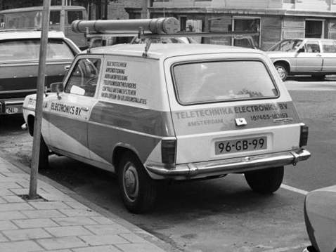 A 1970s Simca 1100 Fourgonnette in Amsterdam.